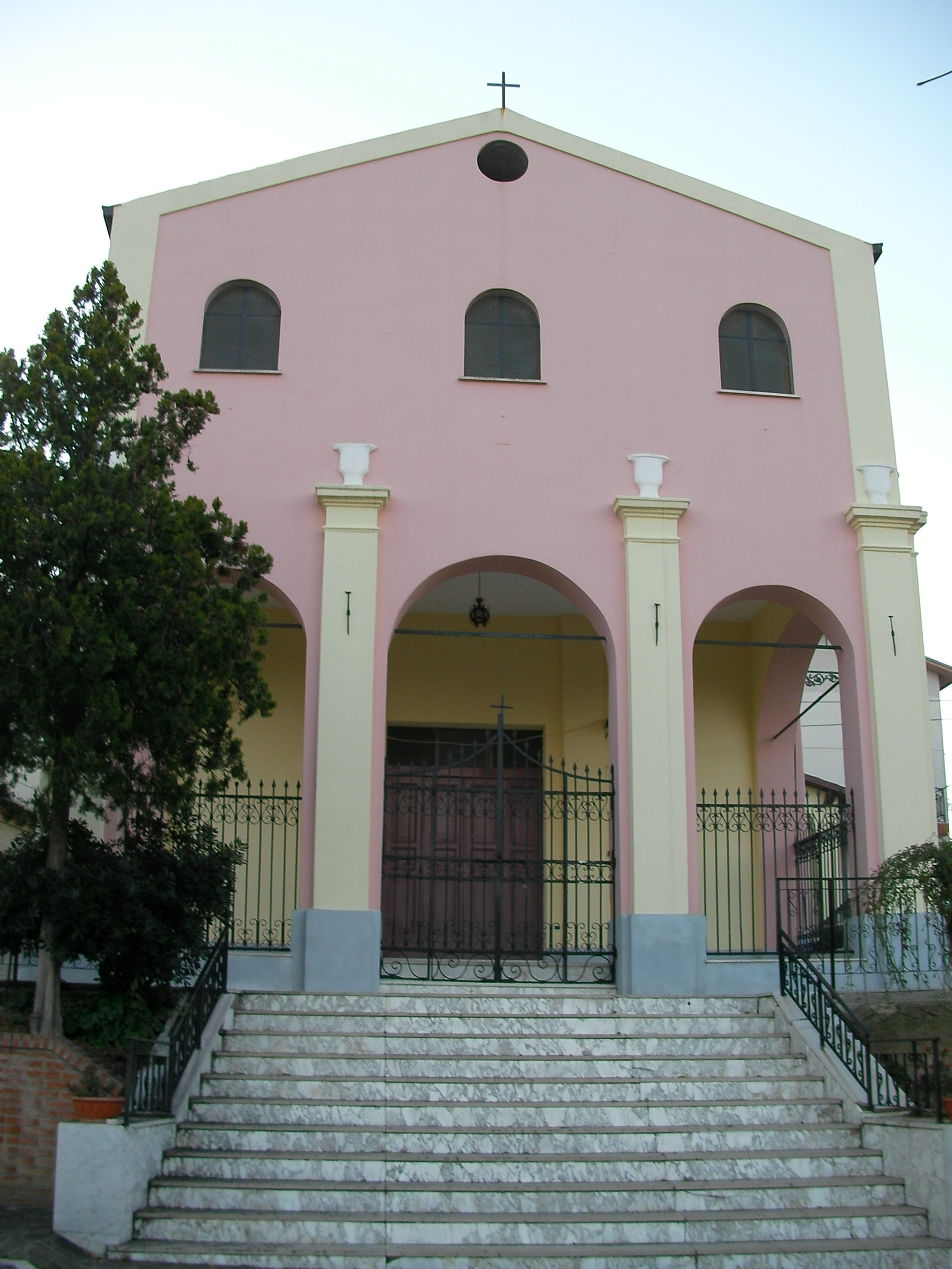 The church of San Canziano, Paglieta, province of Chieti, Abruzzo